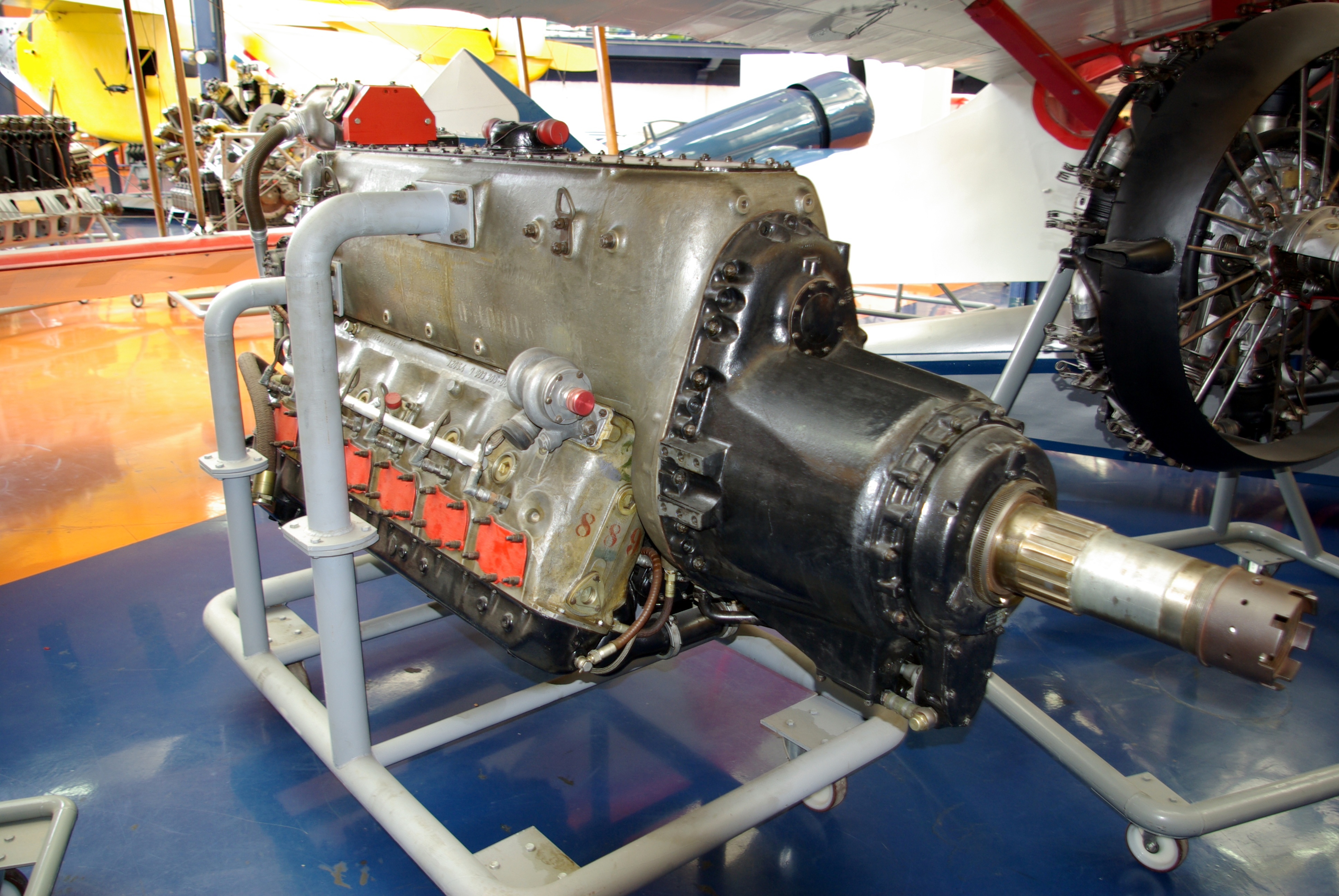 An inverted V12 engine Daimler-Benz DB 603 exhibited at the Air & Space Museum at Le Bourget, France.